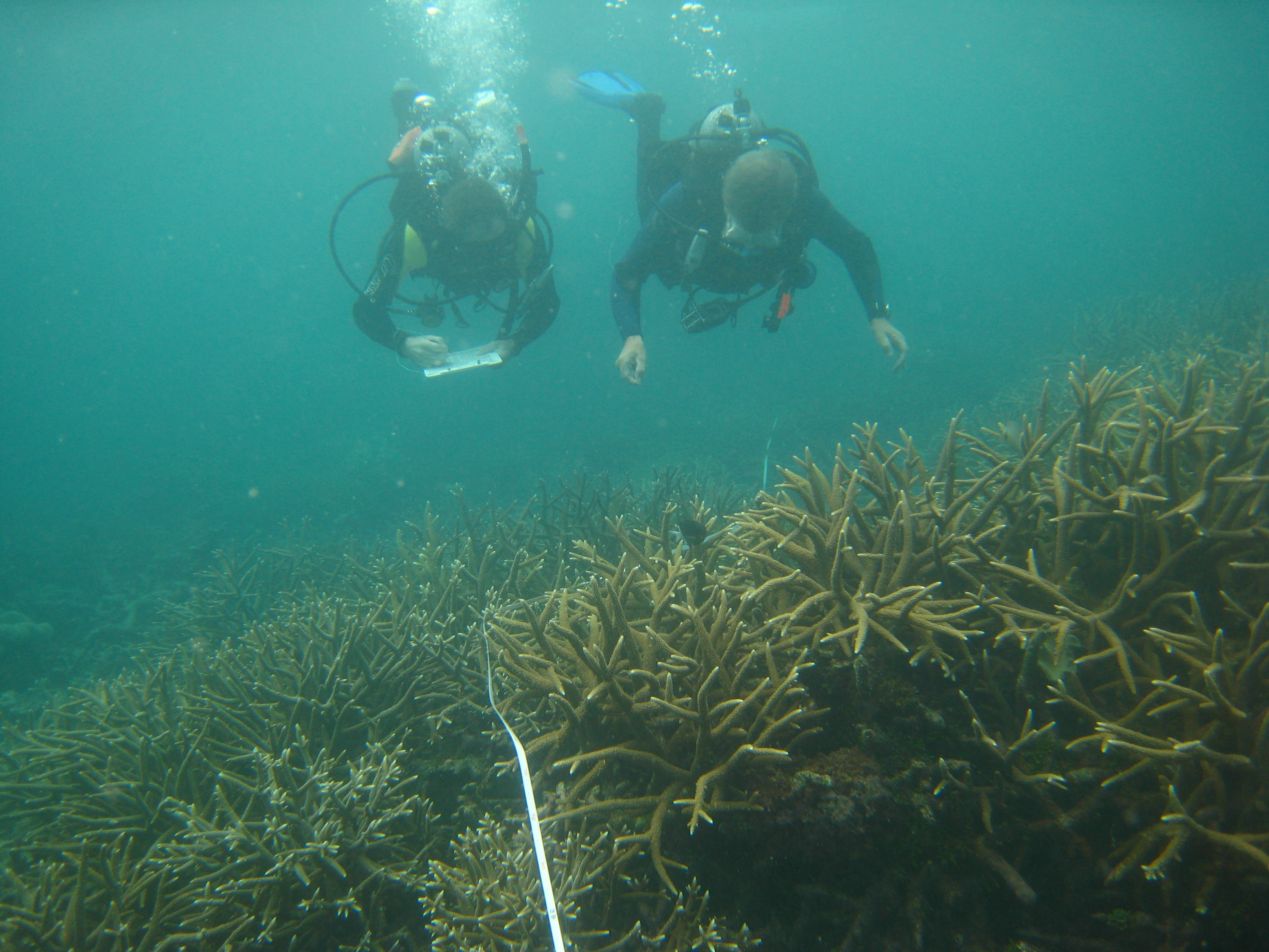 A diving buddy pair taking Reef Check Australia substrate data on the Great Barrier Reef.